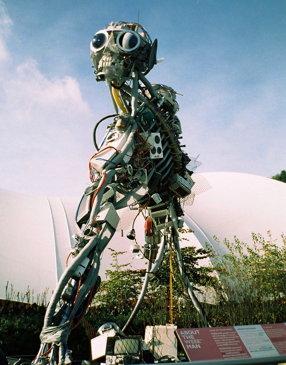 The WEEEman at the Eden Project, Cornwall